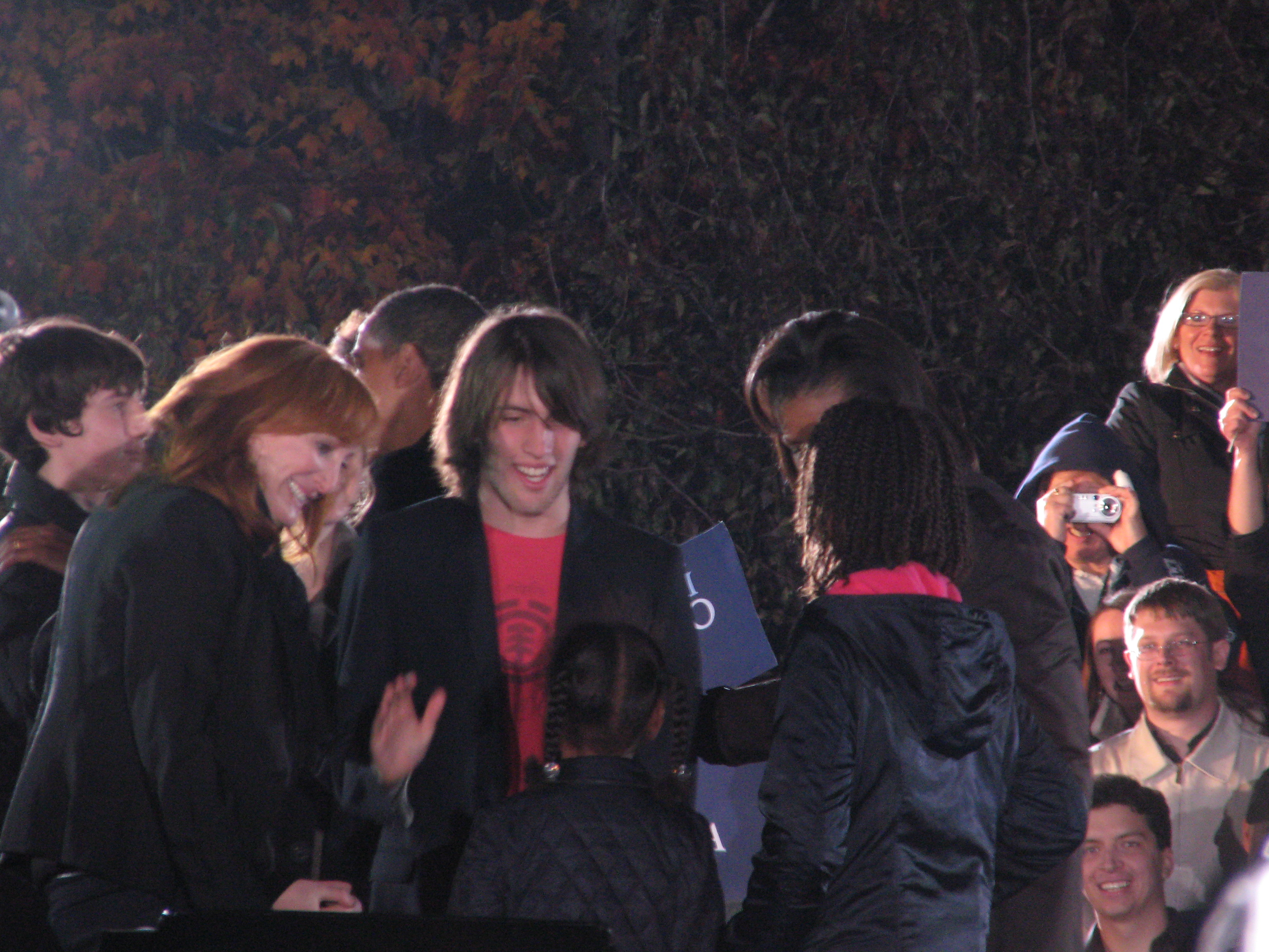 Bruce Springsteen and family greet Barack Obama and family on stage in Cleveland, Ohio.